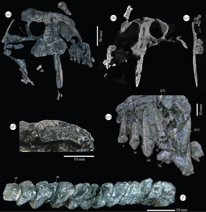 Cranium and dentition of T. eccentricus. (a) Cranium, left lateral view. (b) Cranium, parasagittal section (CT scan), right view. (c) Cranium, transversal section (CT scan) at the level of the caniniform, posterior view. (d) Ventral view of the base of the left caniniform (exposed due to a fracture) and a precaniniform, anterior to the left. (e) Incisiform teeth, medial view. (f) Left palatal teeth, occlusal view, anterior to the right. i–iv, tooth positions; dt, disarticulated teeth; l, left; pc, precaniniform; r, right; rt, replacement tooth.